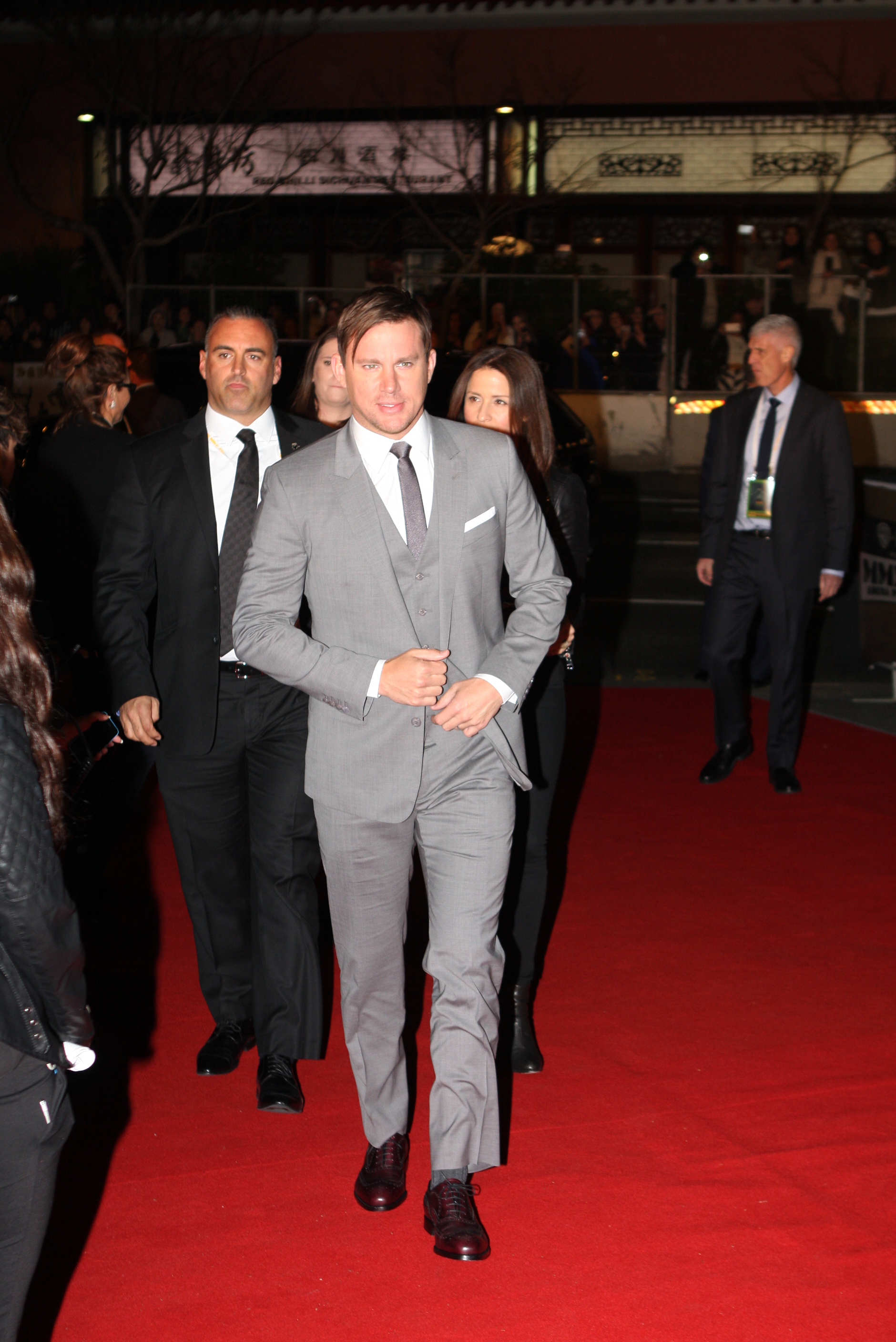 Channing Tatum Warner Bros. & Hoyts red carpet Arena Premiere of Magic Mike XXL